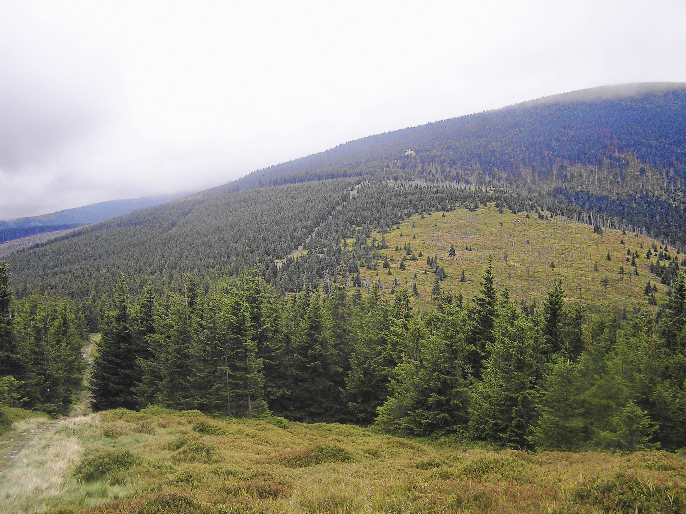 Soví sedlo, eastern Krkonoše, Czech Republic